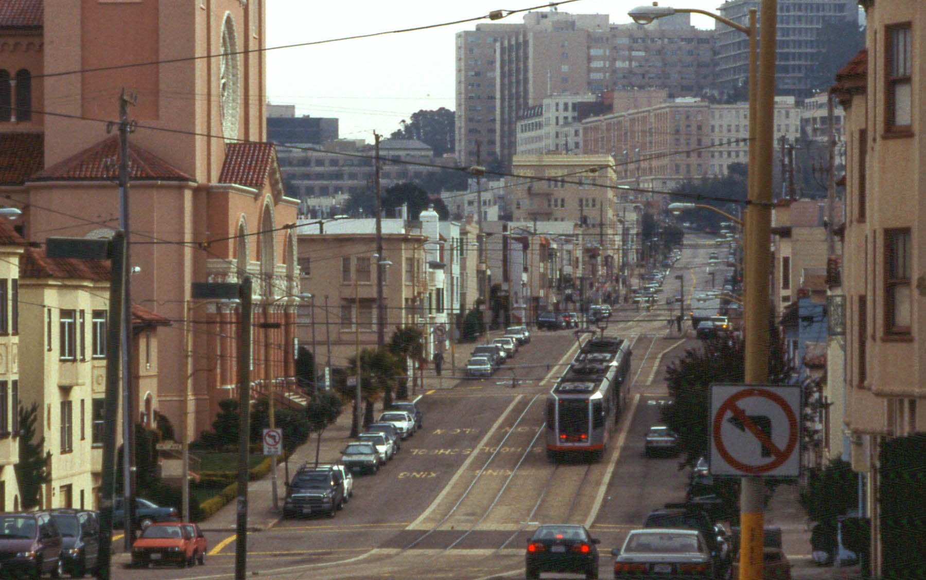 An inbound N Judah train at Funston Avenue in March 2001